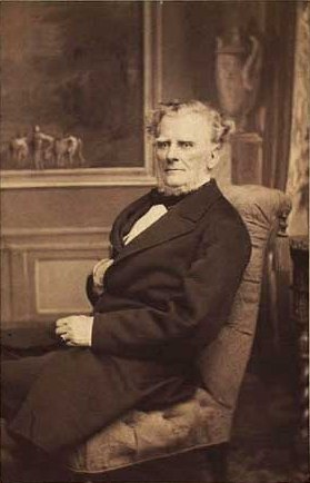 Danish landowner, politician, MP count Adam Gottlob Moltke-Huitfeldt (1798-1876)